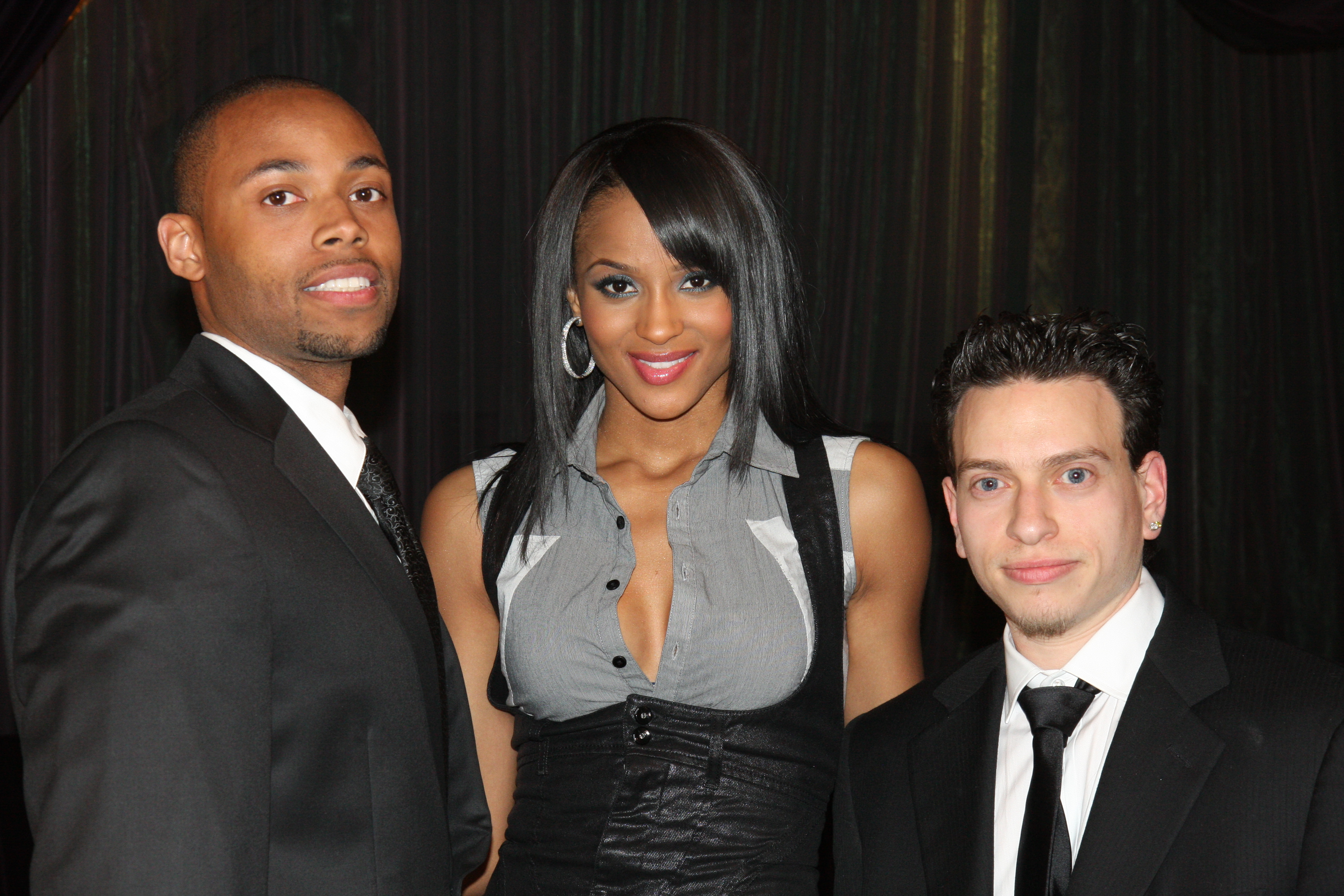 Ciara (center) attending the 5th Annual Hip-Hop Summit Action Network's Action Awards